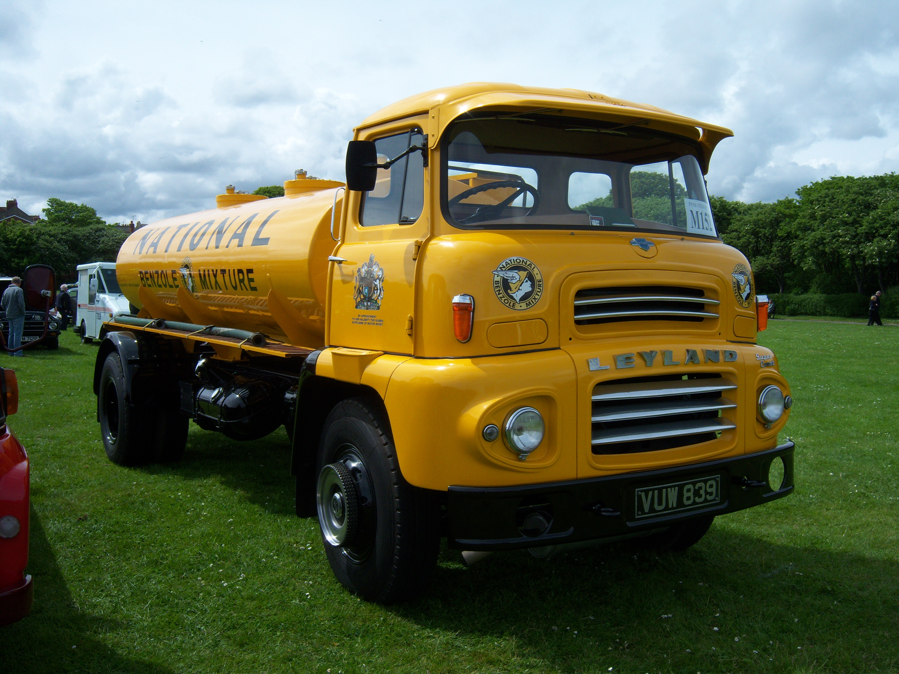 A 1958 Leyland 14SC-1R Super Comet (reg. VUW 839) rigid tanker lorry, pictured at the end of the 2012 HCVS Tyne-Tees Run. It's been restored in the livery of National Benzole, it's original owner.